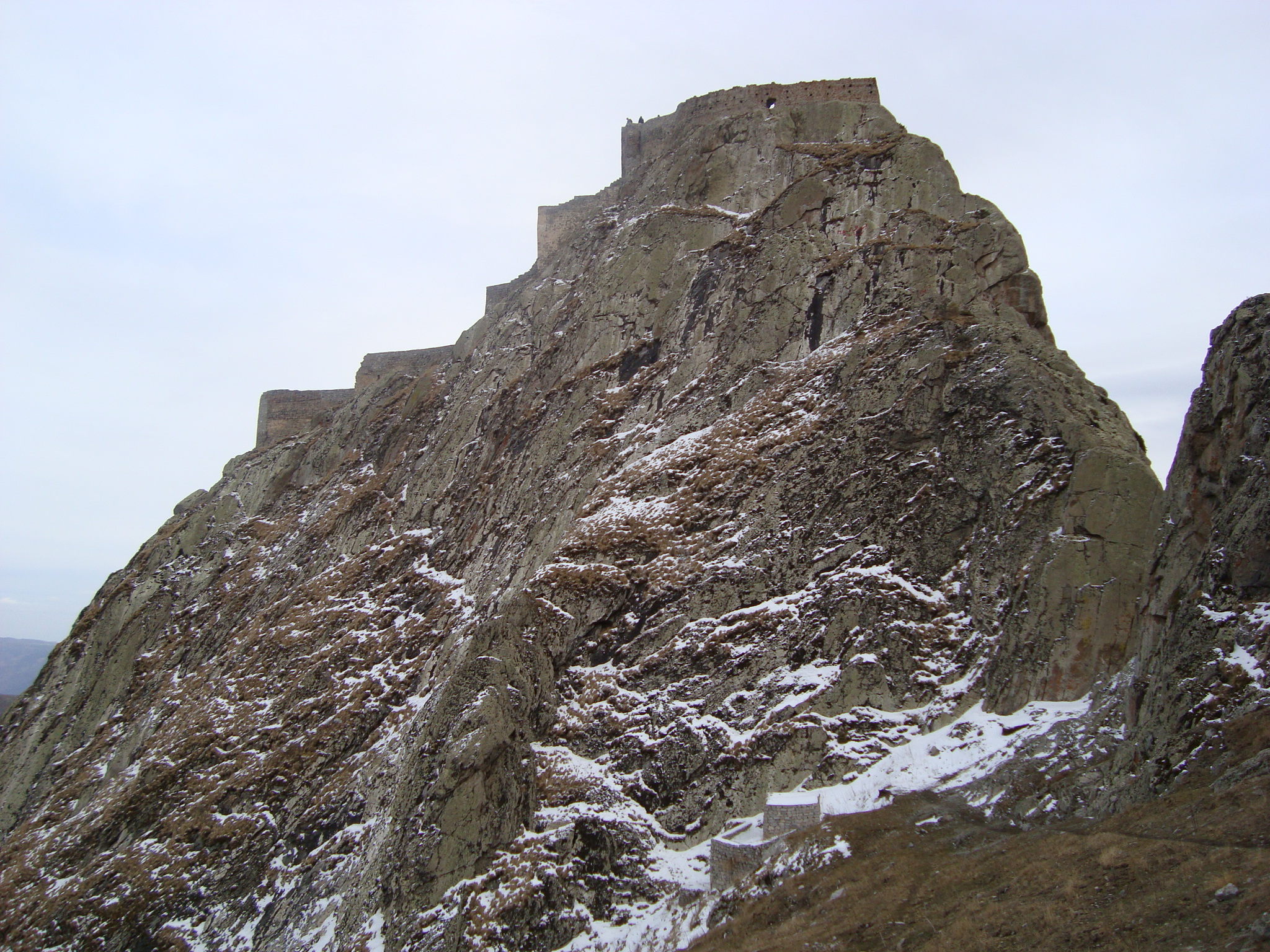 Bazz fortress. Kaleyber, Iran